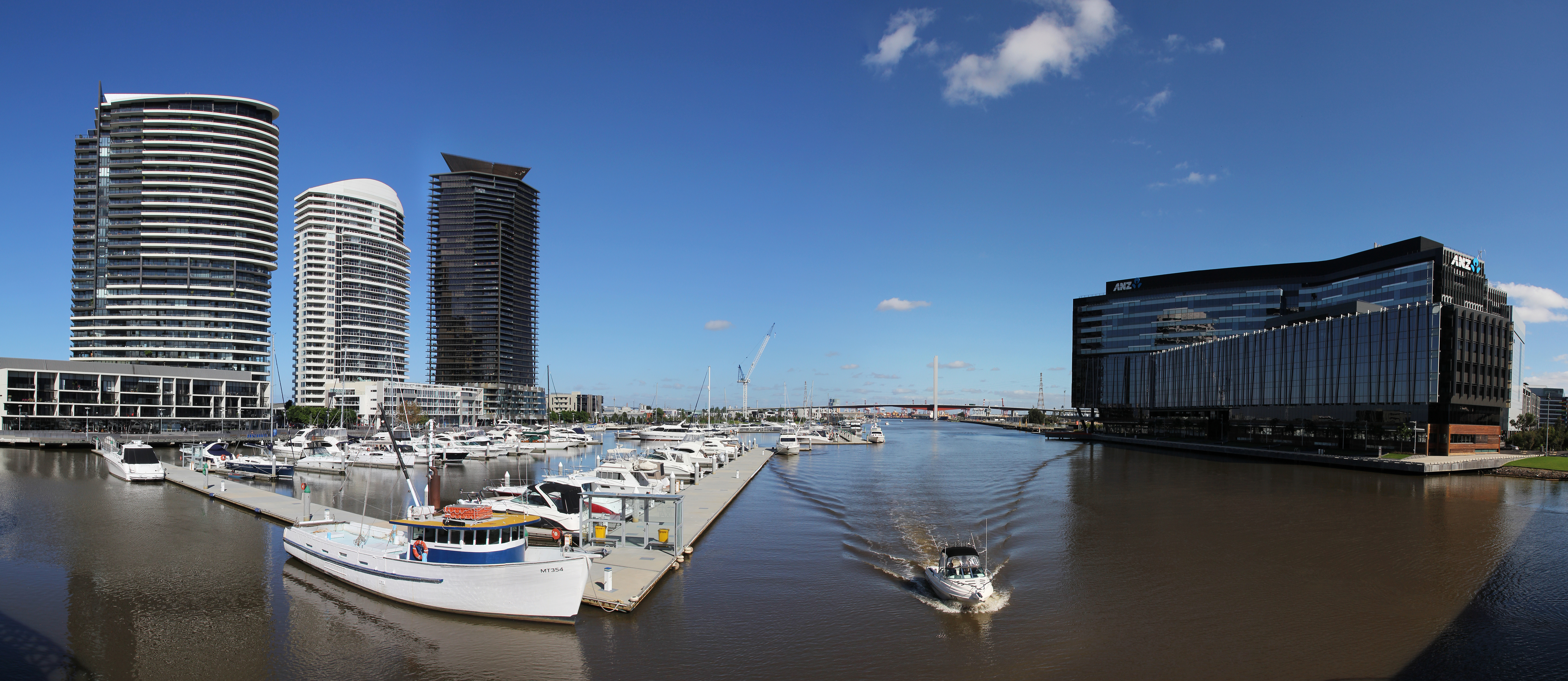 Bolte Bridge & ANZ Headquarter in Docklands, Melbourne